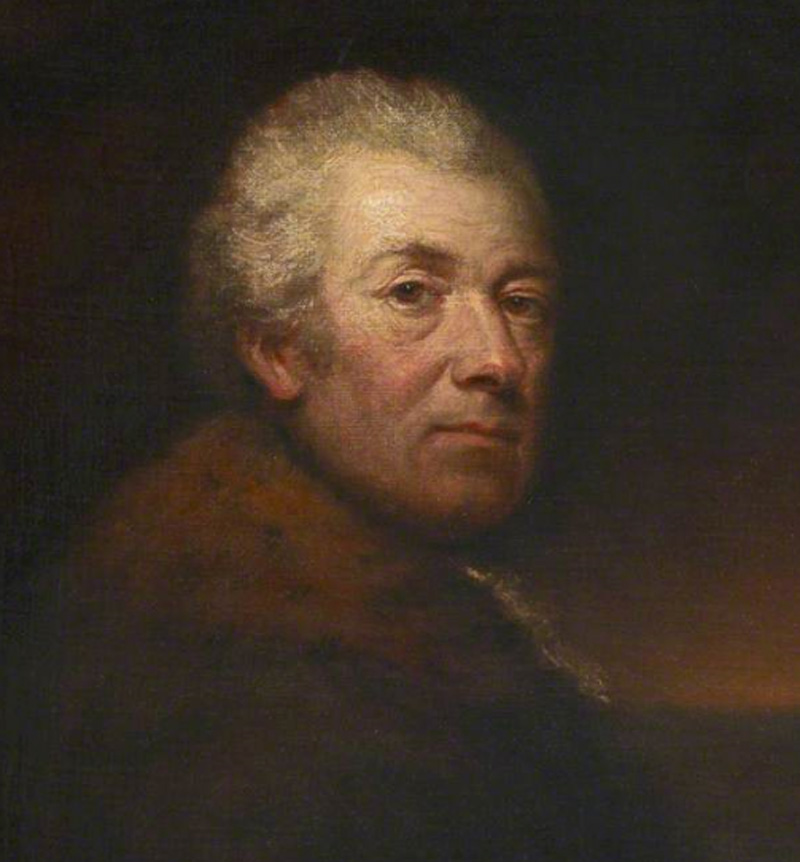 James Wyatt, architect, circa 1800